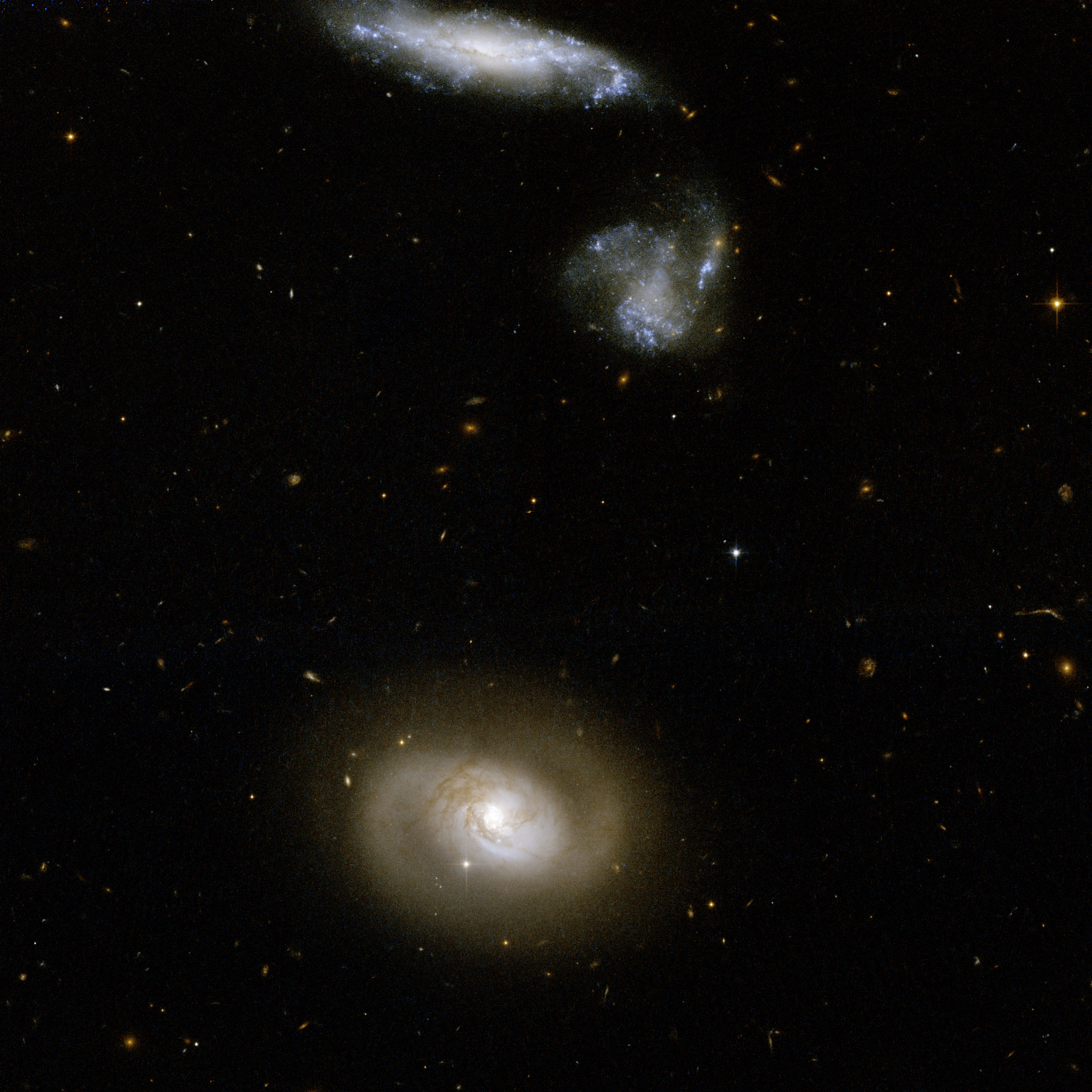 UGC 12812, also known as Markarian 331, is a spiral galaxy with no obvious tidal tails. It is located in the lower part of the Hubble image. Two neighboring blue galaxies are seen at the top of the frame. The galaxy at the very top is embellished by a remarkable number of blue star knots. Observations point to the presence of a giant black hole anchored at the center of the bright core of UGC 12812. The galaxy produces 80 solar masses of new stars on average every year. It is an open question whether Markarian 331 is actually a merging system or whether its infrared brightness stems from another process. UGC 12812 is located in the constellation of Pegasus, the Winged Horse, about 250 million light-years away from Earth. This image is part of a large collection of 59 images of merging galaxies taken by the Hubble Space Telescope and released on the occasion of its 18th anniversary on 24th April 2008. About the objectObject nameUGC 12812, Mrk 9006, KPG 592BObject descriptionInteracting GalaxiesPosition (J2000)23 51 24.16 +20 34 55.9ConstellationPegasusDistance200 million light-years (50 million parsecs)About the dataData descriptionThe Hubble image was created using HST data from proposal 10592: A. Evans (University of Virginia, Charlottesville/NRAO/Stony Brook University)InstrumentACS/WFCExposure date(s)May 29, 2002Exposure time33 minutesFiltersF435W (B) and F814W (I)